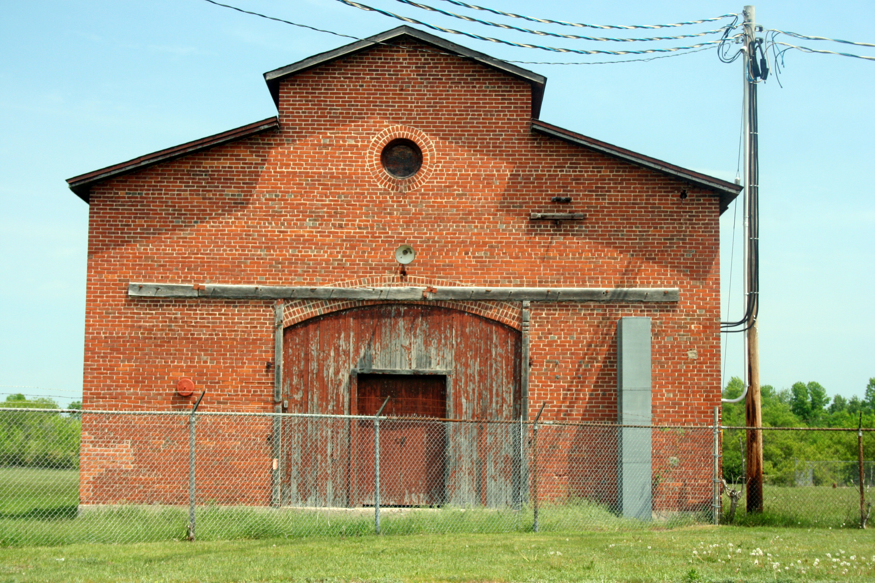 Remnants of the distillery in Corbyville, Ontario, Canada.